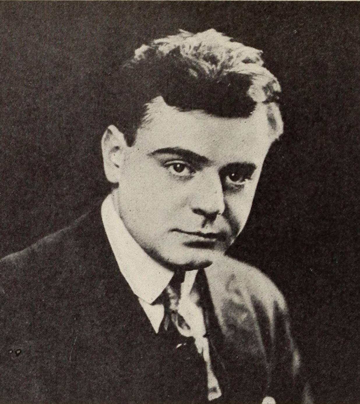 Promotional photo